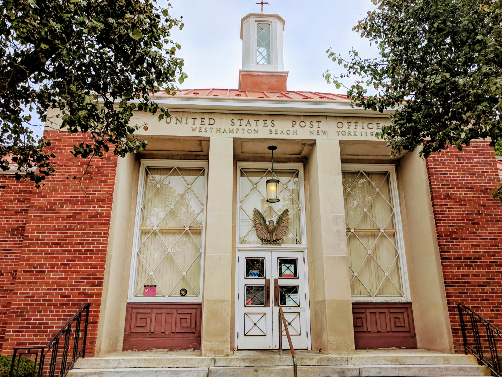 USPO Front entrance, cupola and weathervane, eagle above door